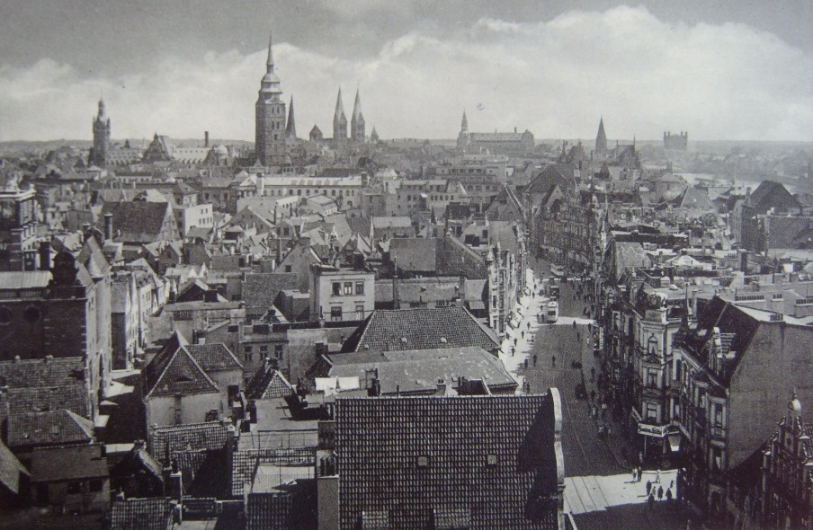 The tower of St. Ansgarii Church seen in the City-Skyline of Bremen before 1939. Picture taken from the roof of the Departement store of Julius Bamberger.